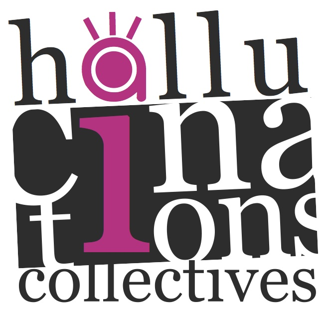 Logo for Hallucinations Collectives festival